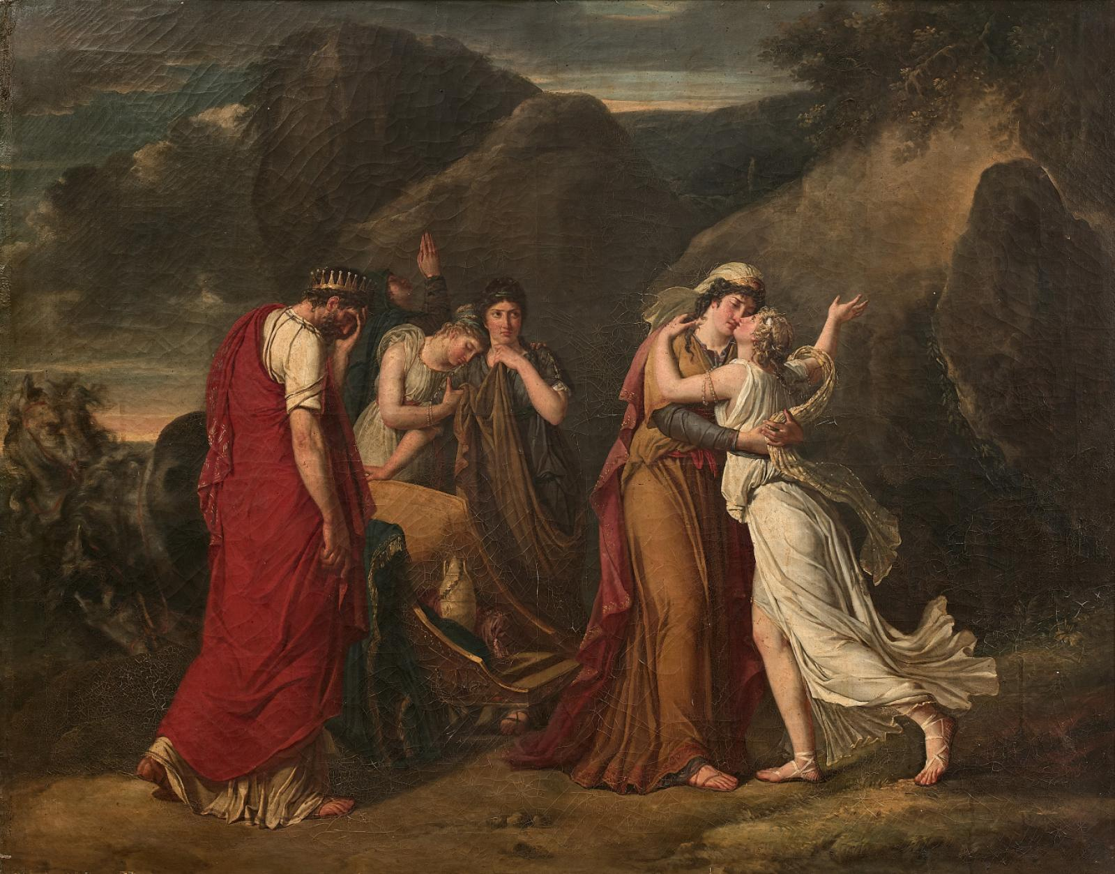 Psyche Bidding Farewell to Her Family, 1791, painting by Marie-Guillemine Benoist